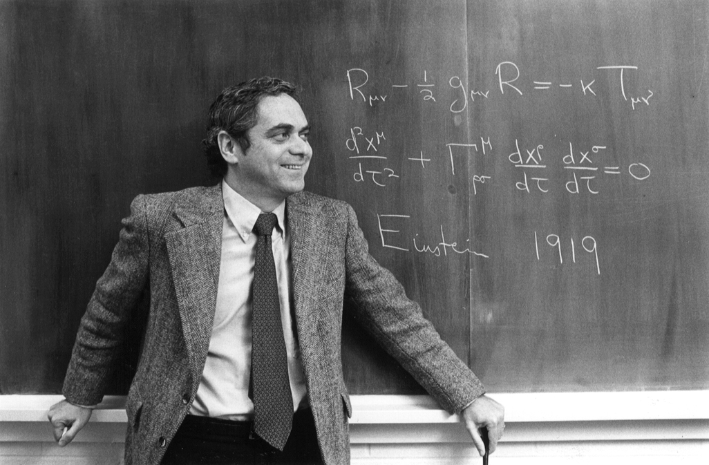 This is a photo of Gerald Harris Rosen teaching physics at Drexel University